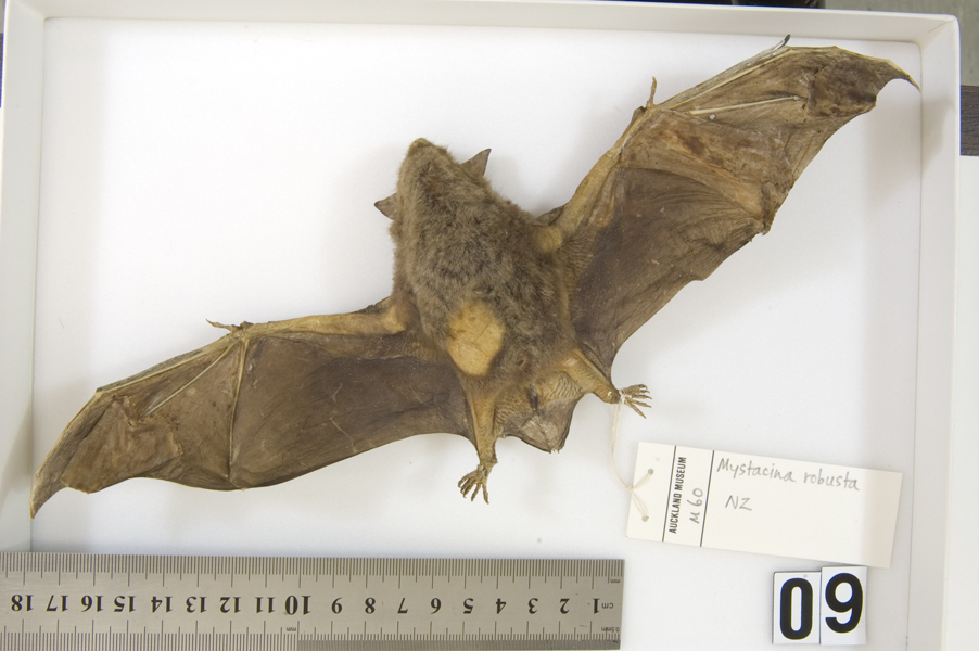 Mystacina robusta specimen held at Auckland Museum